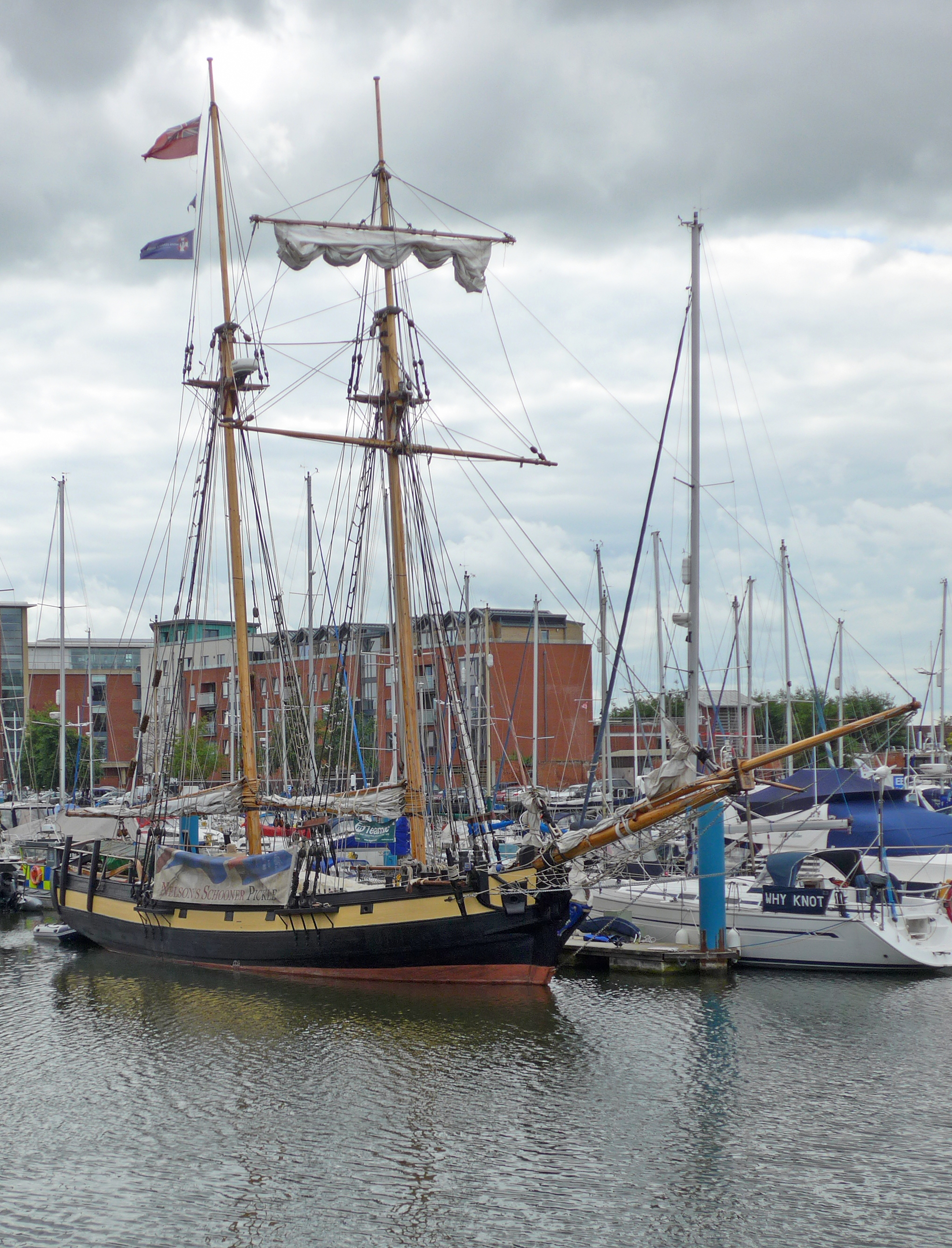 Replica of Nelson's schooner, at Hull